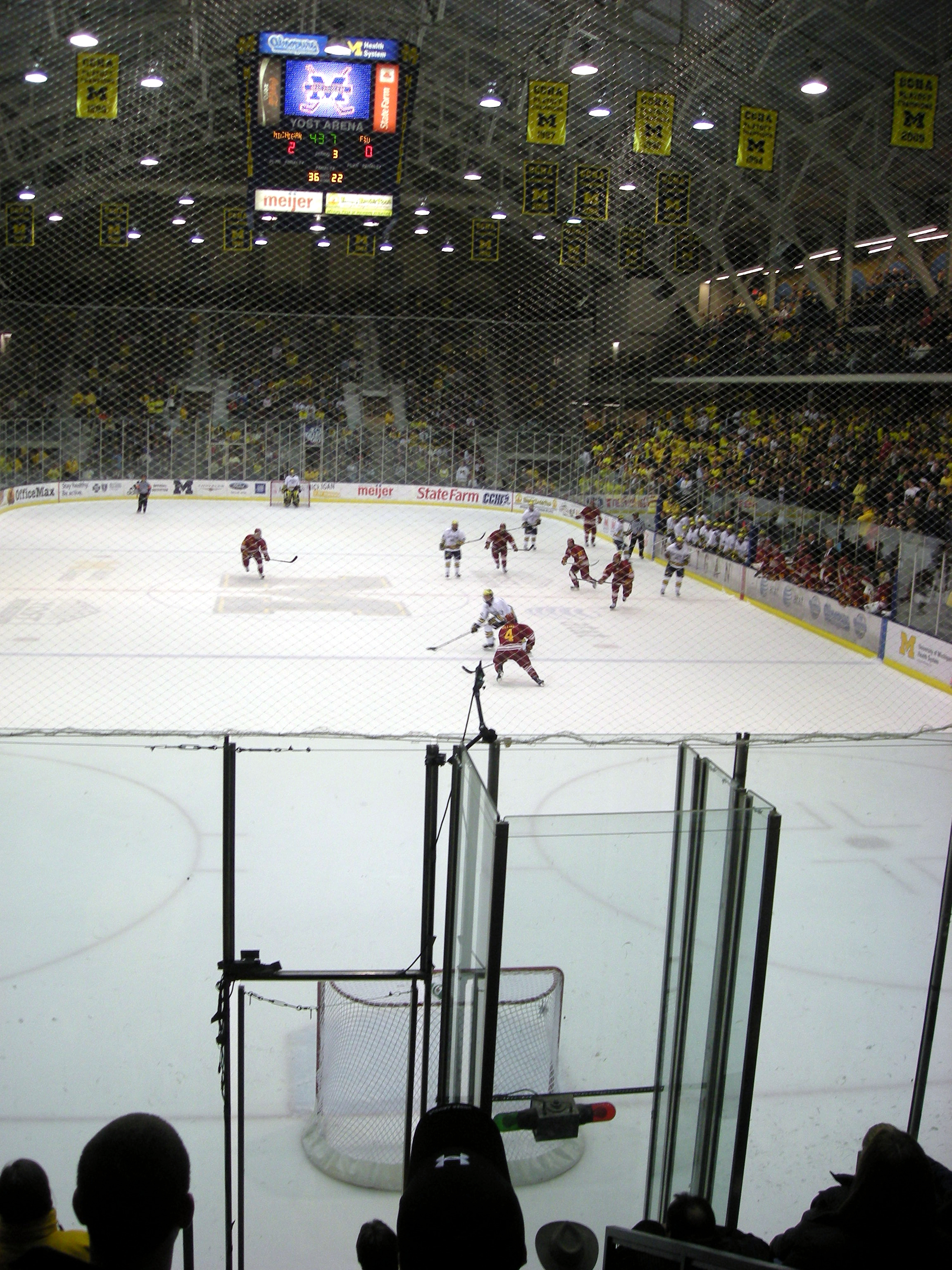 Michigan attempts an empty net goal during the Ferris State Bulldogs vs. Michigan Wolverines men's ice hockey game at Yost Ice Arena in Ann Arbor, Michigan (United States). Michigan won 2–0.